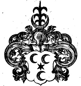 Wappen der rheinhessischen Adelsfamilie Hund von Saulheim (Hundt von Saulheim)